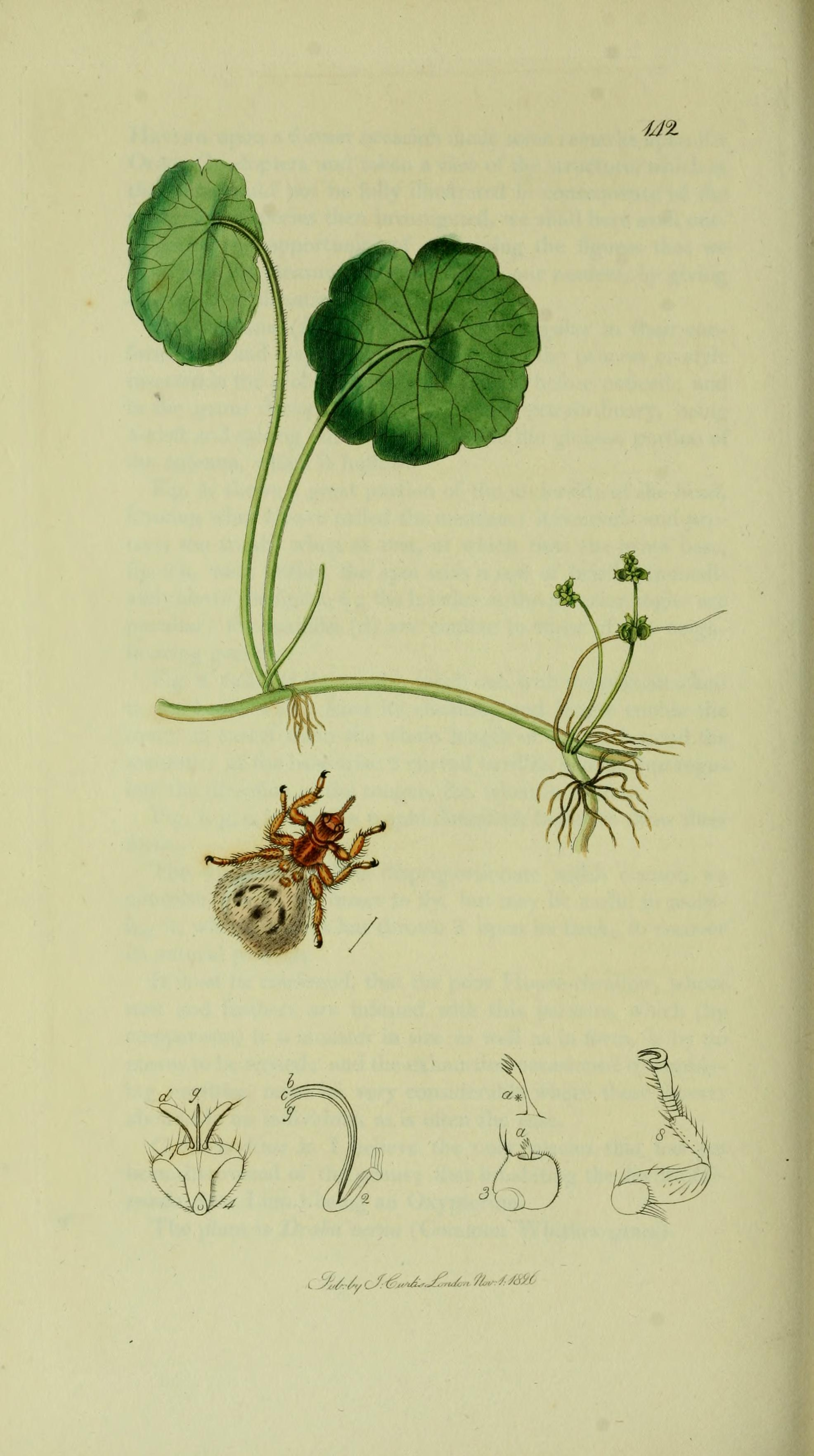 John Curtis British Entomology (1824-1840) Folio 142 Diptera: Melophagus ovinus (Sheep-louse, Sheep-tick or Ked).The plant is Hydrocotyle vulgaris (Marsh Pennywort).